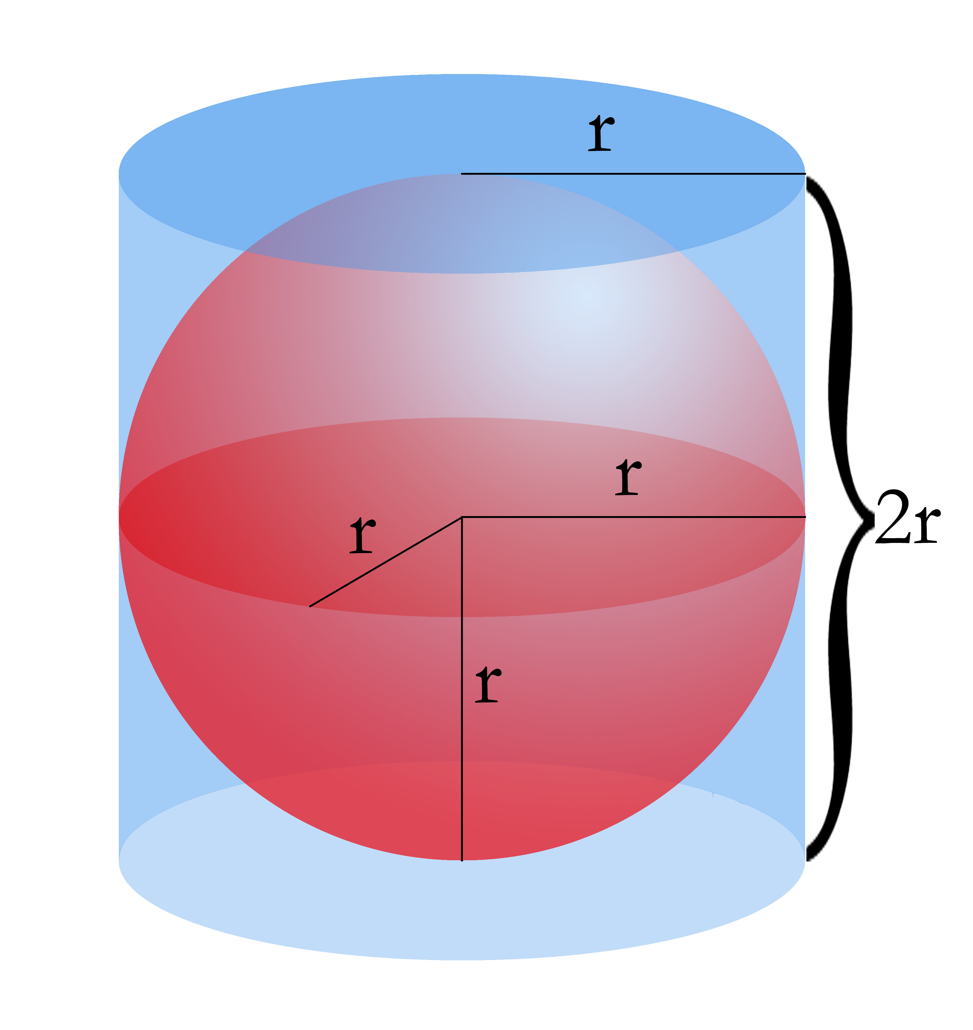 Archimedes' circumscribed cylinder to the sphere